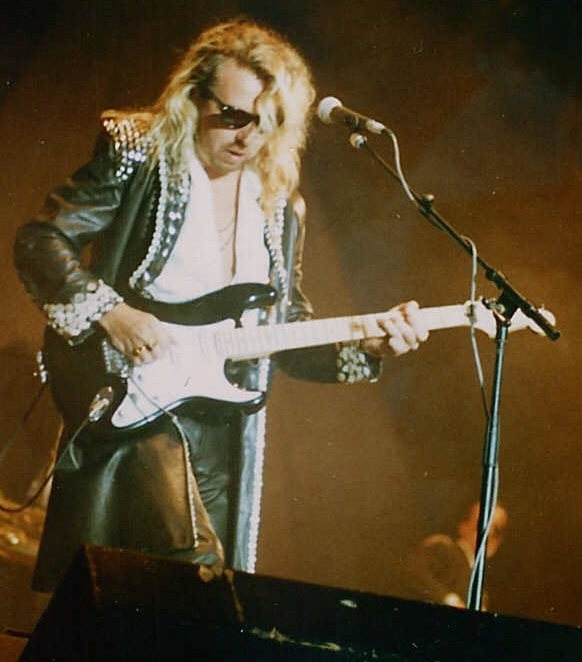 Eurythmics’ David A. Stewart during their 1987 concert at Rock am Ring, Germany